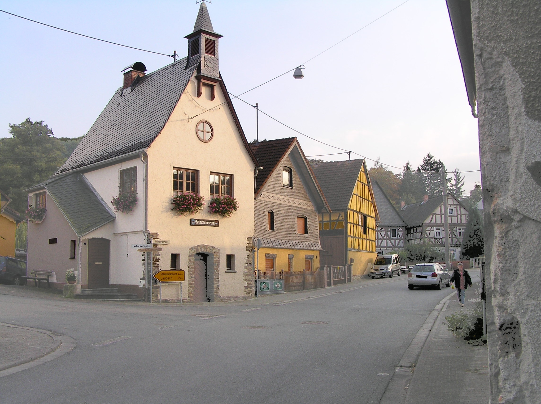 Museum, Gemünden (Weilrod), Hesse, Germany